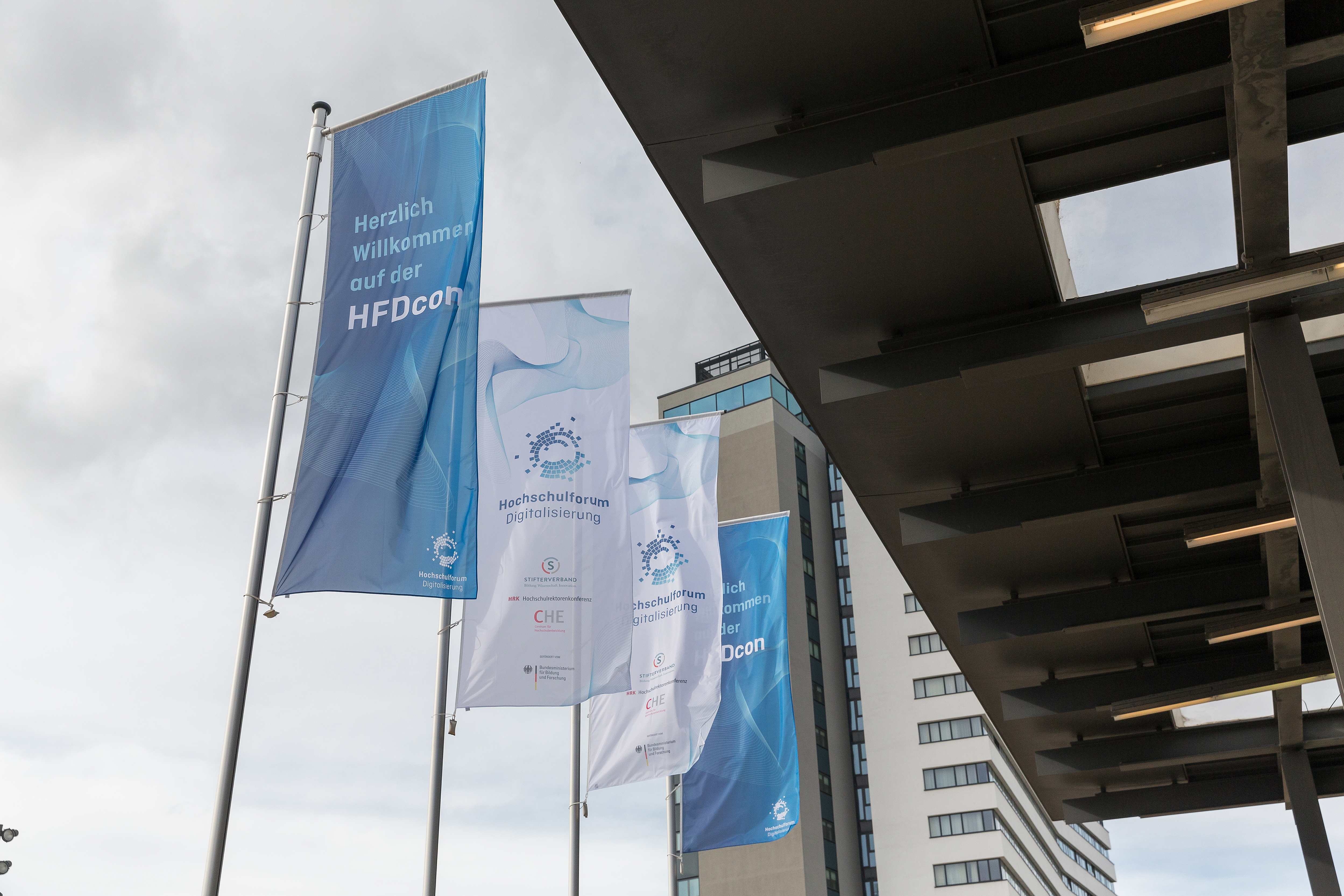 Bilder von der HFDcon 2019 in Bonn. Fotograf: Jürgen Schulzki. Lizenz: CC BY-SA 4.0.